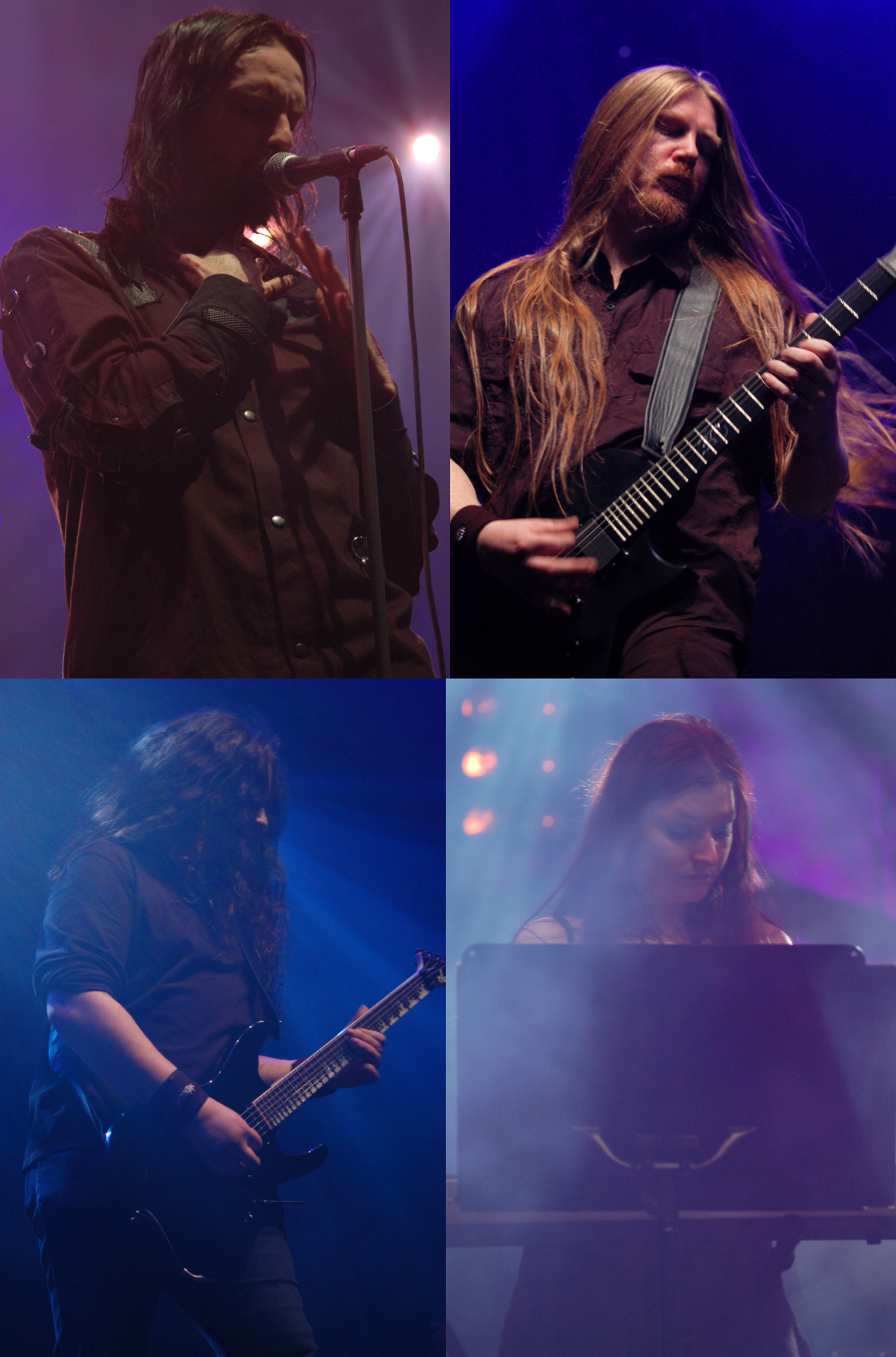 Four members of Gothic doom metal band My Dying Bride live. Left to right, clockwise: Aaron Stainthorpe, Hamish Glencross, Sarah Stanton, Andrew Craighan.